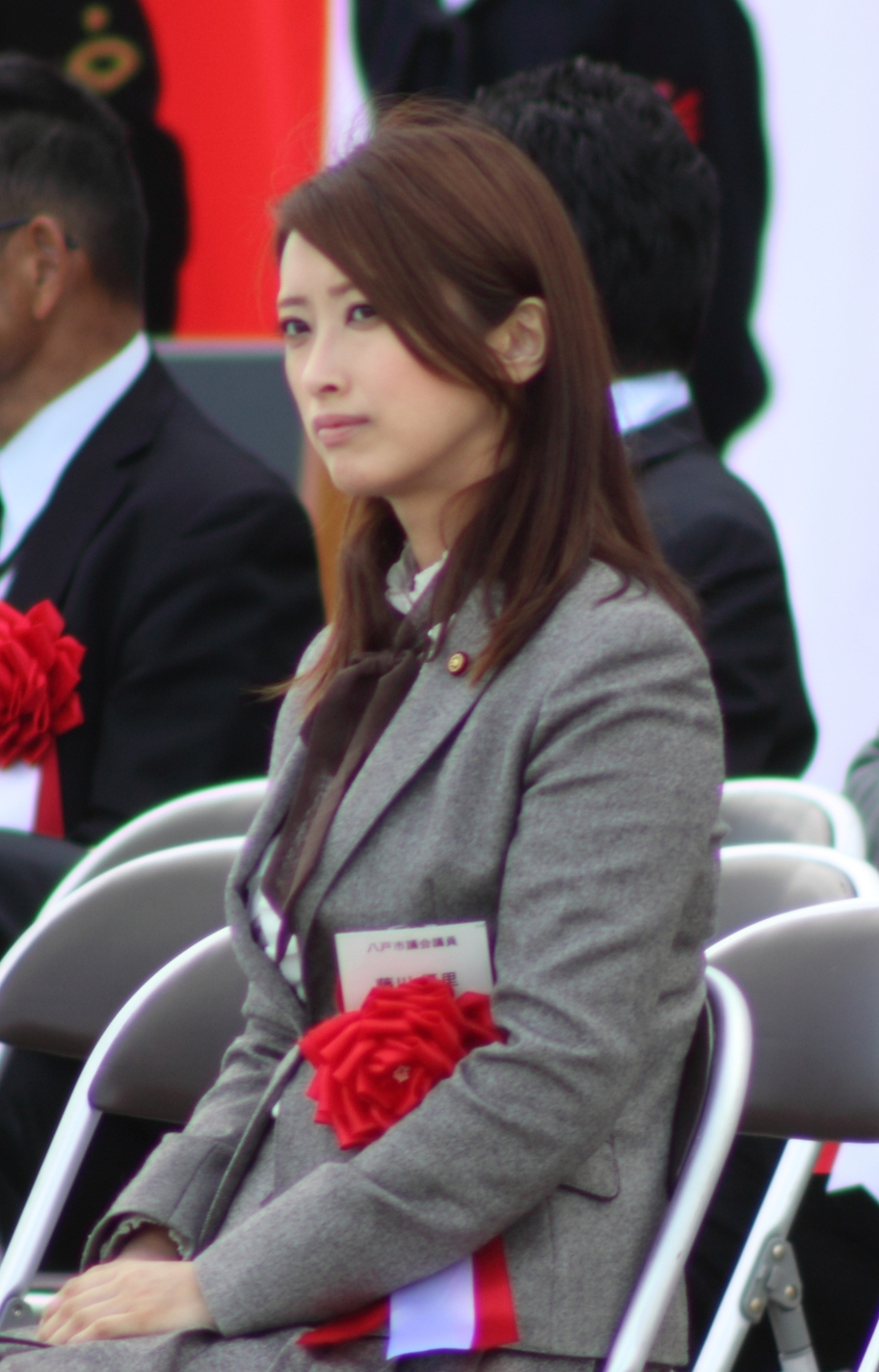 Yuri Fujikawa, Member of the Hachinohe City Council, visited to the JMSDF Hachinohe Air Base in Hachinohe City, Aomori Prefecture on September 23, 2011.